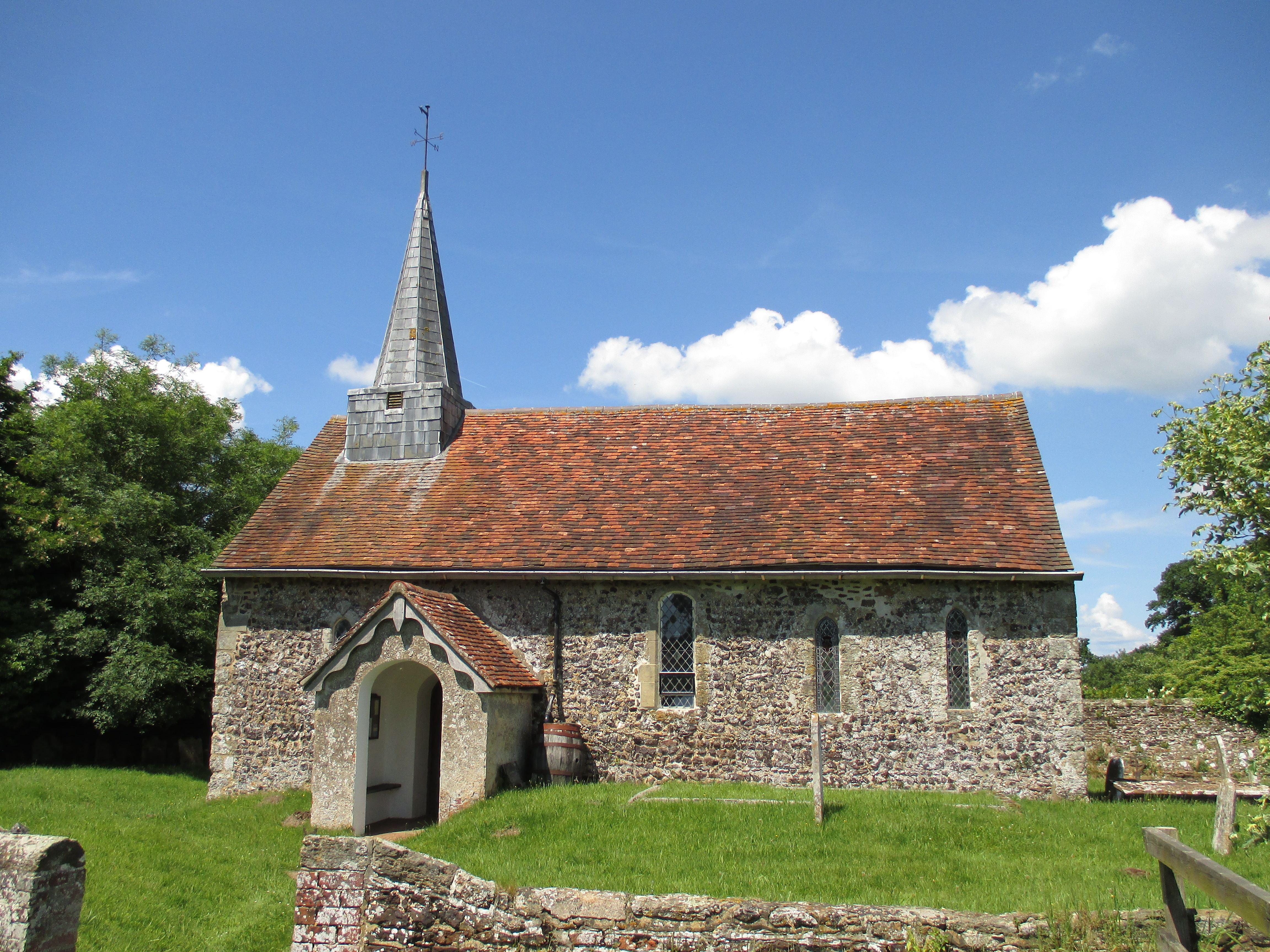 Greatham Church, Greatham, near Coldwaltham, West Sussex, seen from the south.